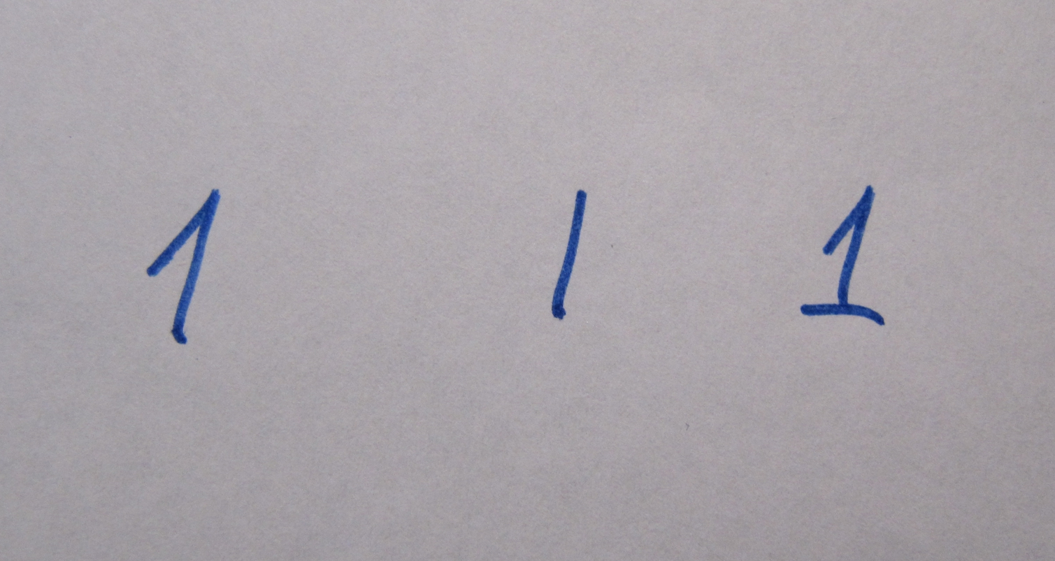 Ways for writing the cipher one by hand